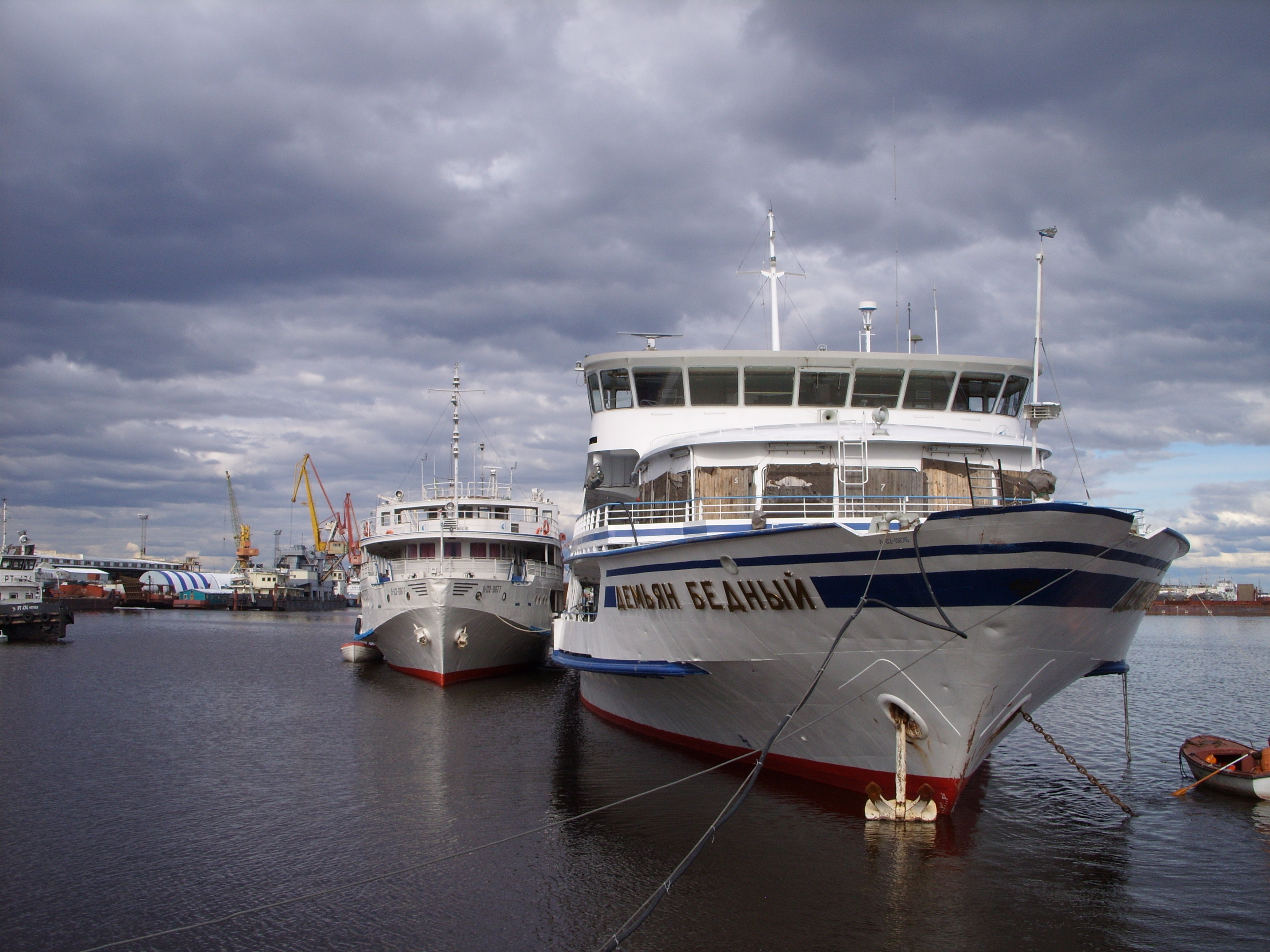 Mekhanik Kulibin and Demyan Bednyy in Port of Yakutsk